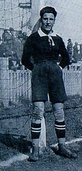 The Italian goalkeeper Gianpiero Combi of Juventus F.C.